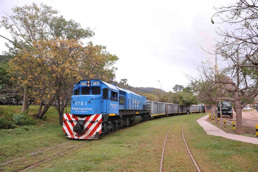 EMD GT22 locomotive operated by Trenes Argentinos CyL, the state owned freight rail transport company of Argentina.